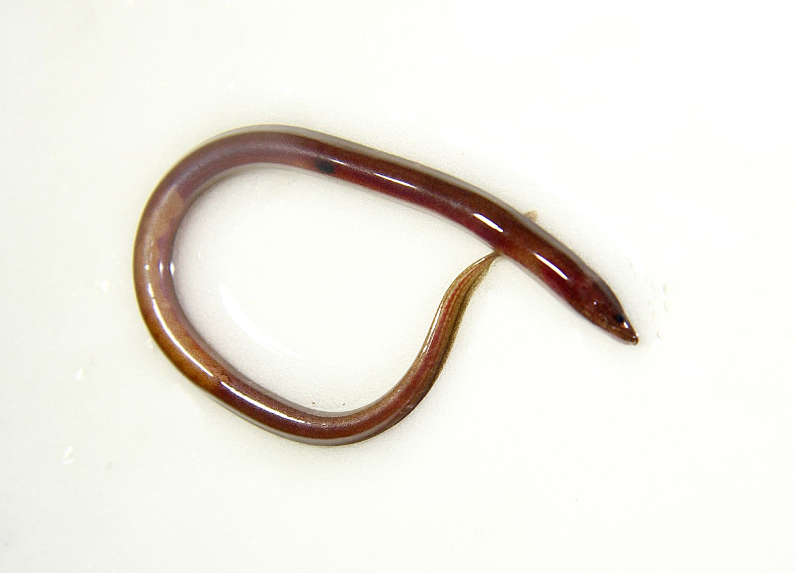 Synbranchus cf. marmoratus